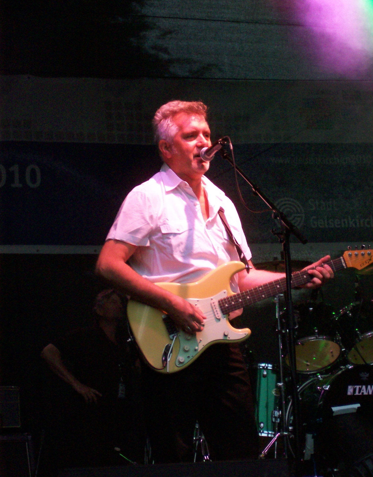 Manfred Manns Earth Band live in Gelsenkirchen Germany.